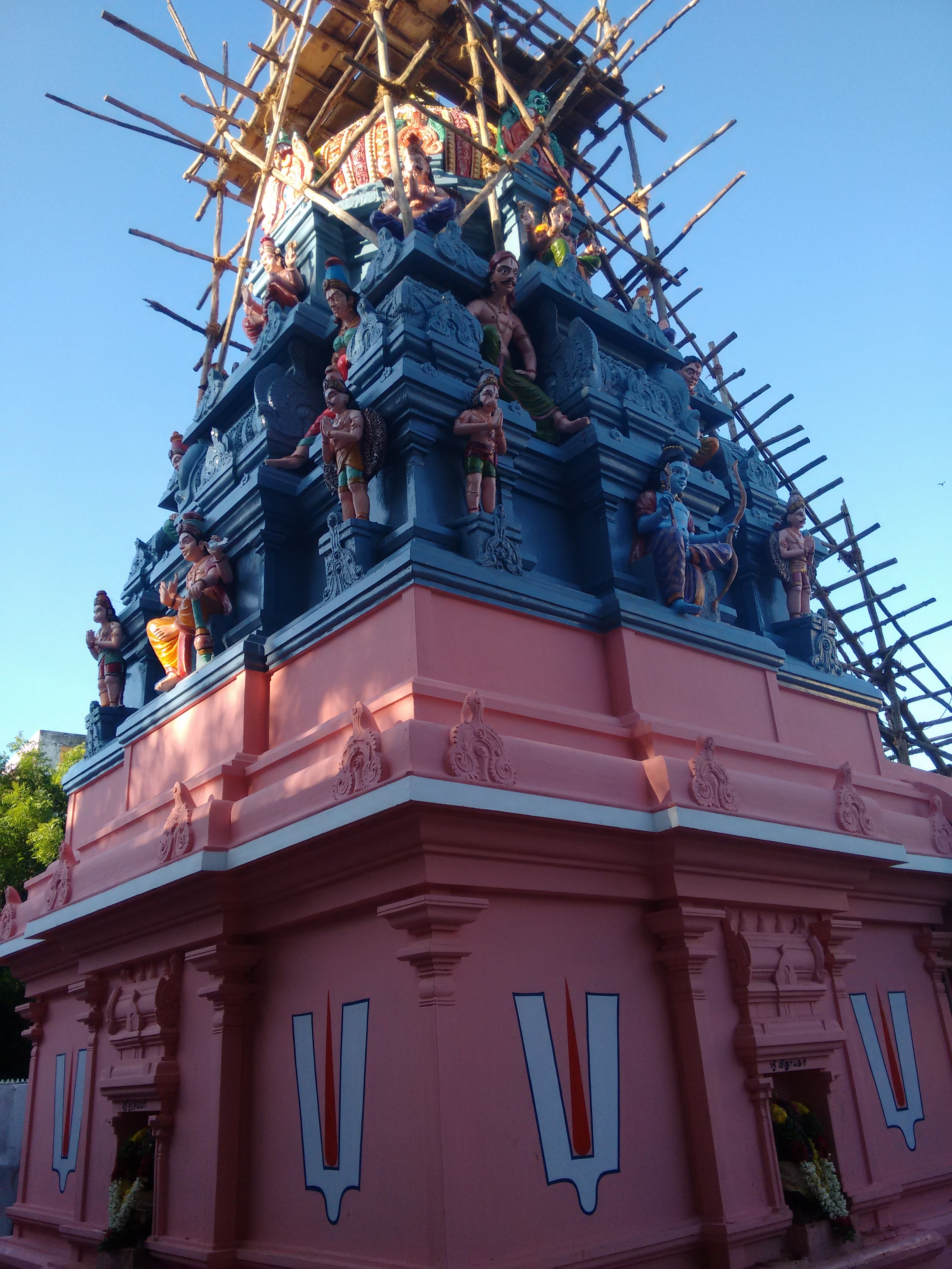 Tanjorevaradarajaperumal1 தஞ்சாவூர் வரதராஜப்பெருமாள் கோயில்